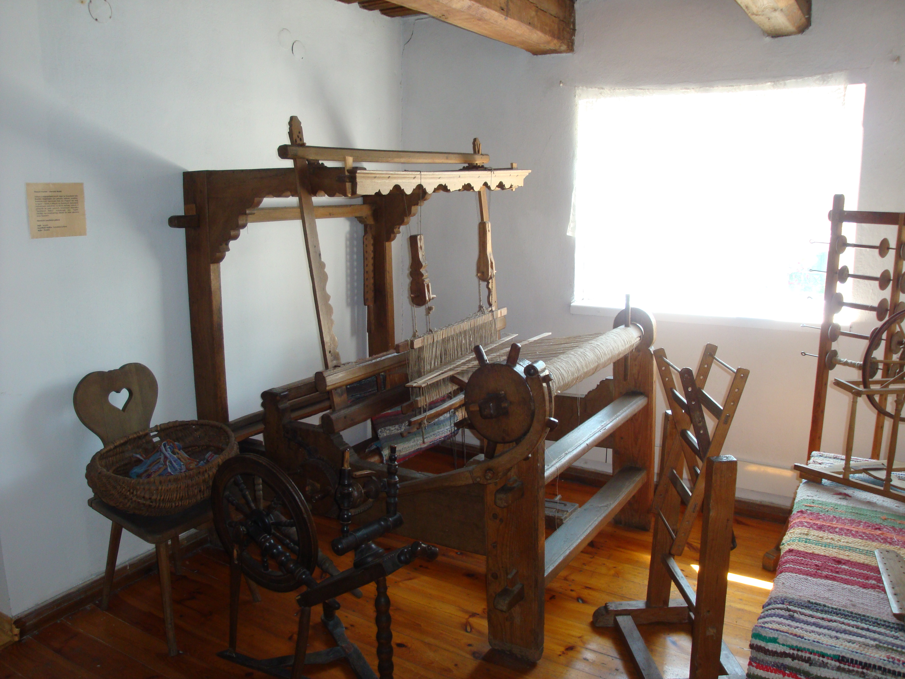 The Florian Ceynowa Museum of the Puck Region in Puck. Loom